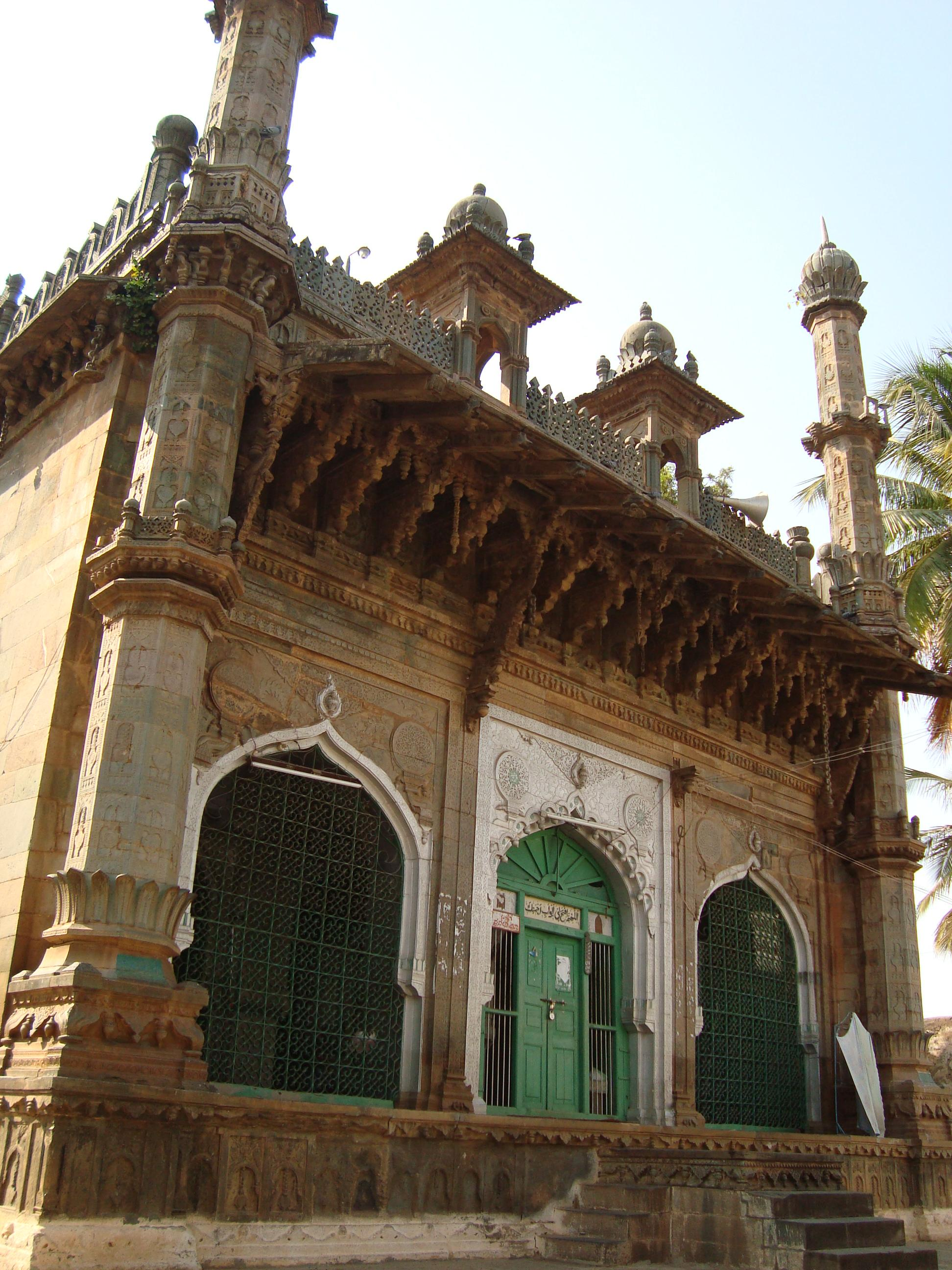 Lakshmeshwara Jumma maszid Author and Source : Manjunath Doddamani, Gajendragad/Hubli, Karnataka (North), India.